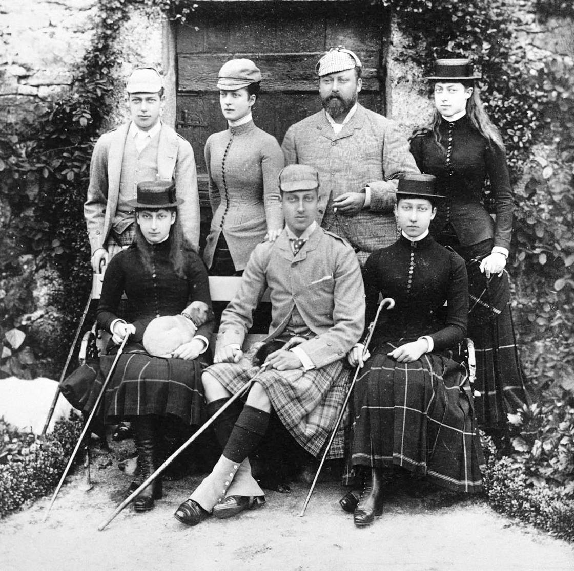 The Prince and Princess of Wales with their children Left to right, standing: Prince George; Alexandra, Princess of Wales; the Prince of Wales; Princess Victoria of Wales. Seated: Princess Maud, with small dog on her lap; Prince Albert Victor; Princess Louise. Highland dress.